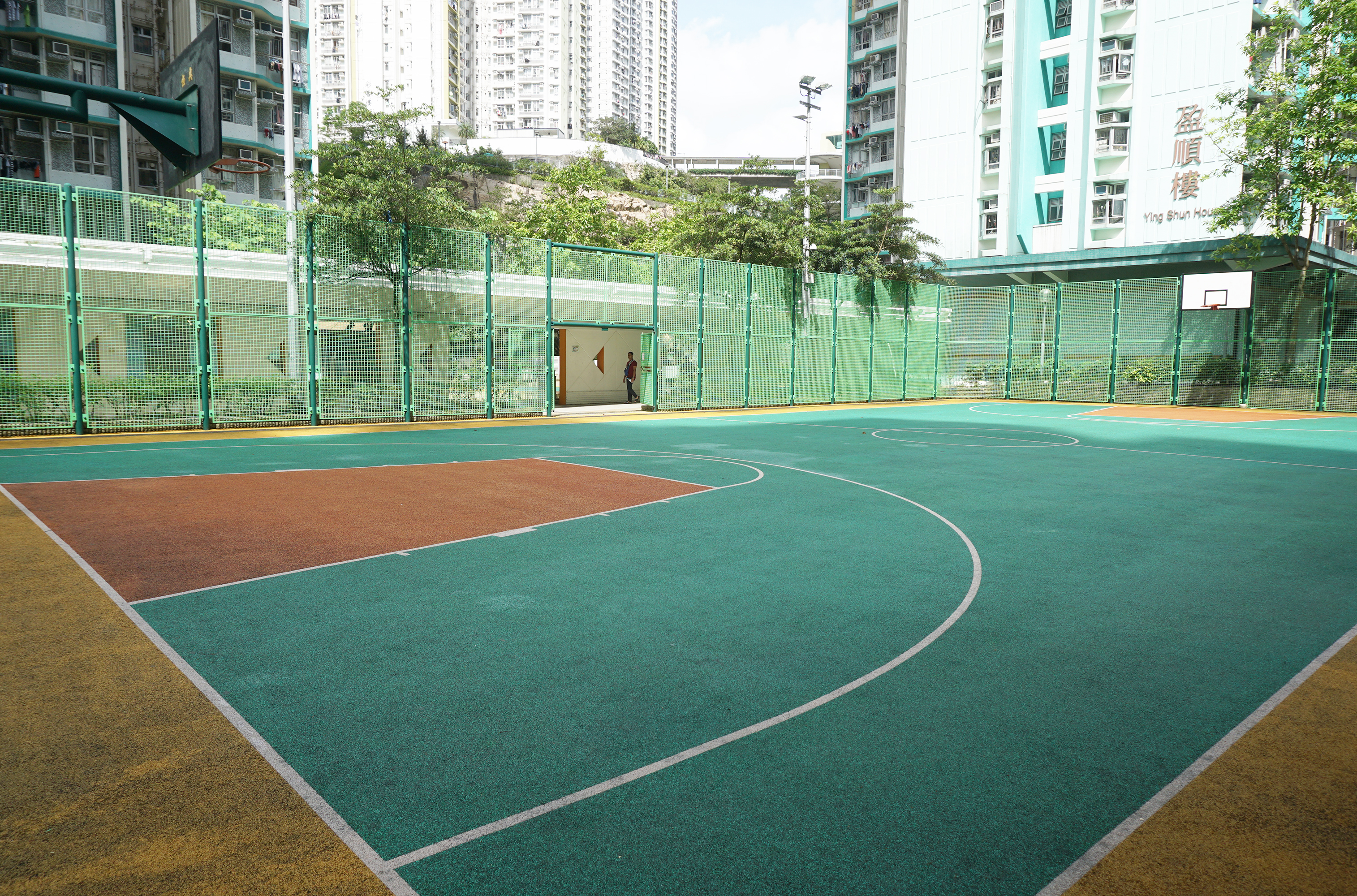 Choi Ying Estate in Kowloon Bay, Hong Kong.